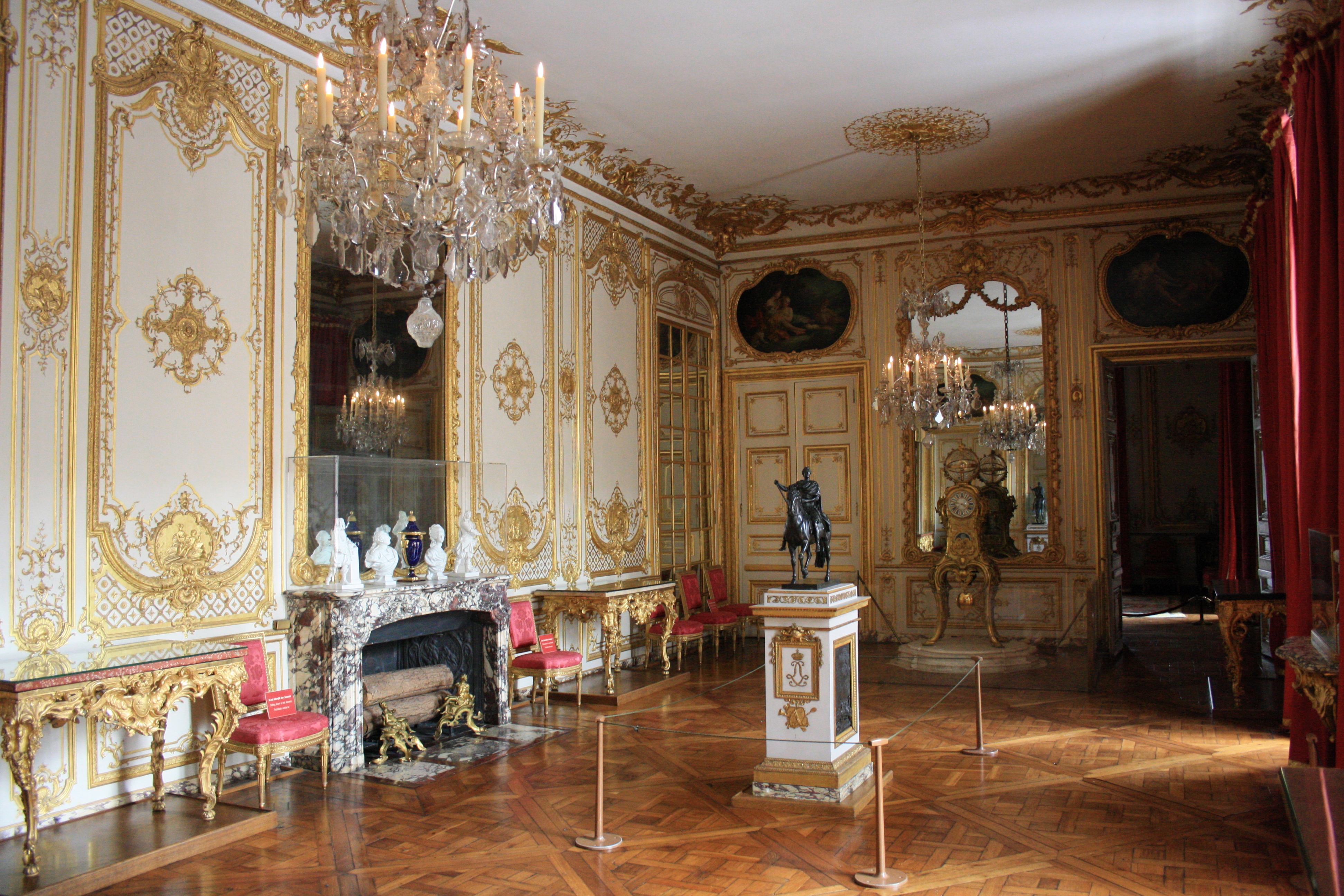 Petit appartement du roi (small apartment of the king) in the Palace of Versailles in Versailles, France